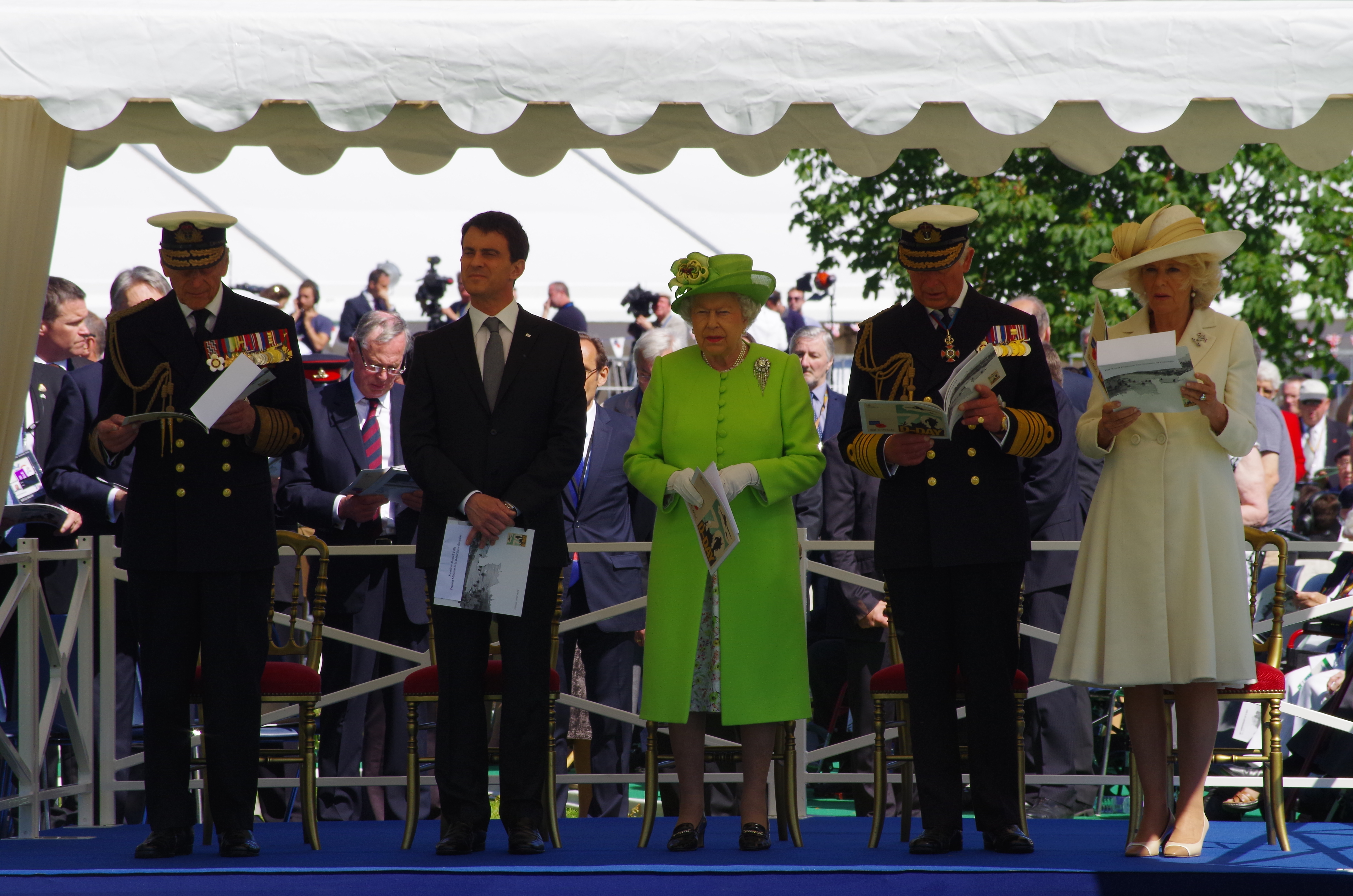 Her Majesty The Queen, M. Manuel Valls, and TRH The Duke of Edinburgh, The Prince of Wales and The Duchess of Cornwall standing at the start of the service.